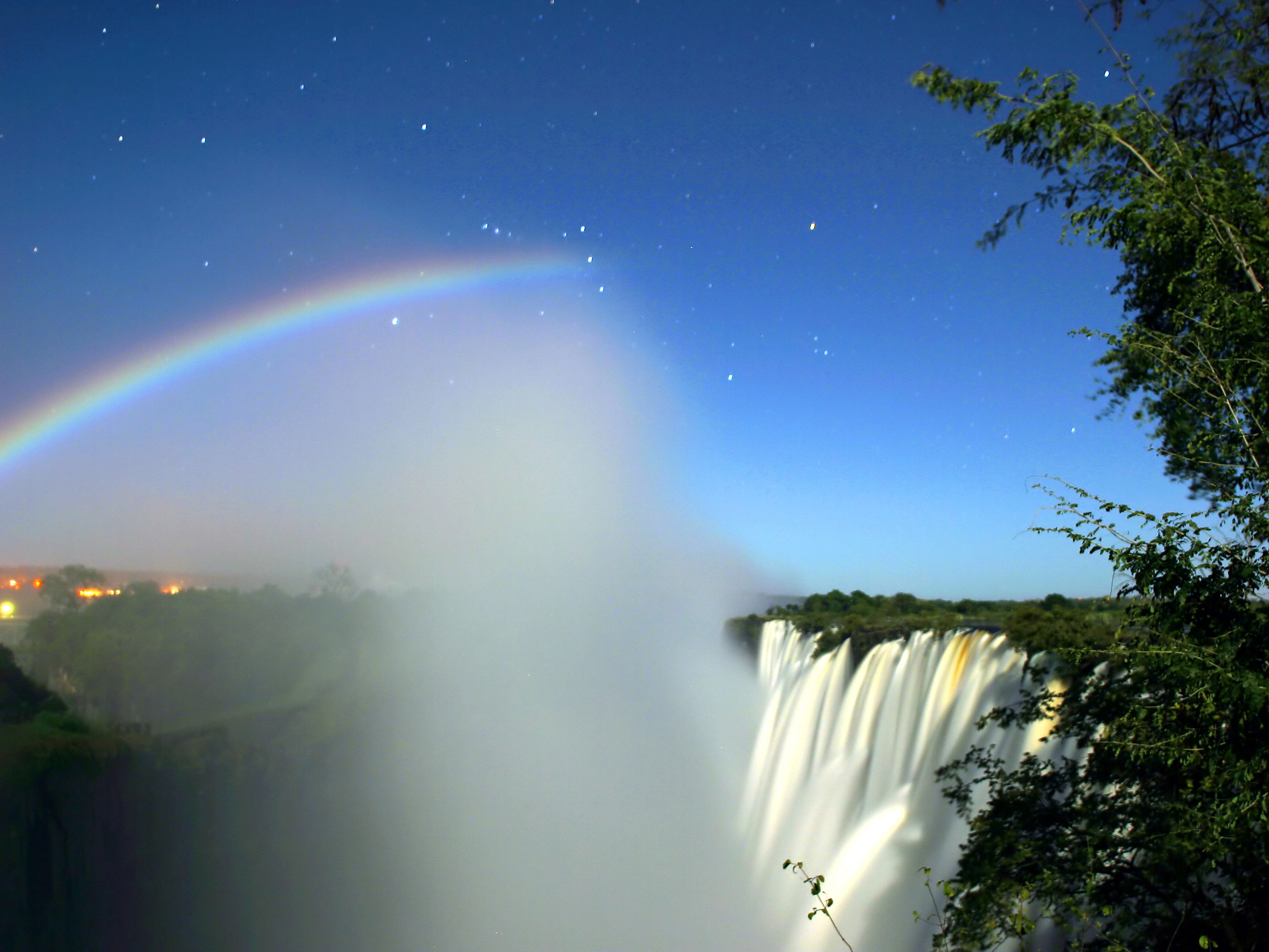 Photo of a Lunar Rainbow taken from the Zambia side of Victoria Falls. The constellation Orion is visible behind the top of the moonbow. (30 Sec exposure, taken from the Zambia side of the Falls) Image 3 of 4